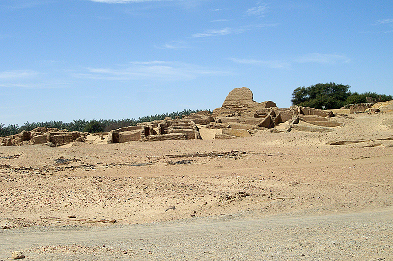 Ancient settlement of Ain al-Kharab/ Ain al-Turba, al-Kharga depression, Libyan desert, Egypt